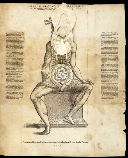 Anatomical fugitive sheet created by Jean Ruel (1474 -1537) and first published in Paris in 1539